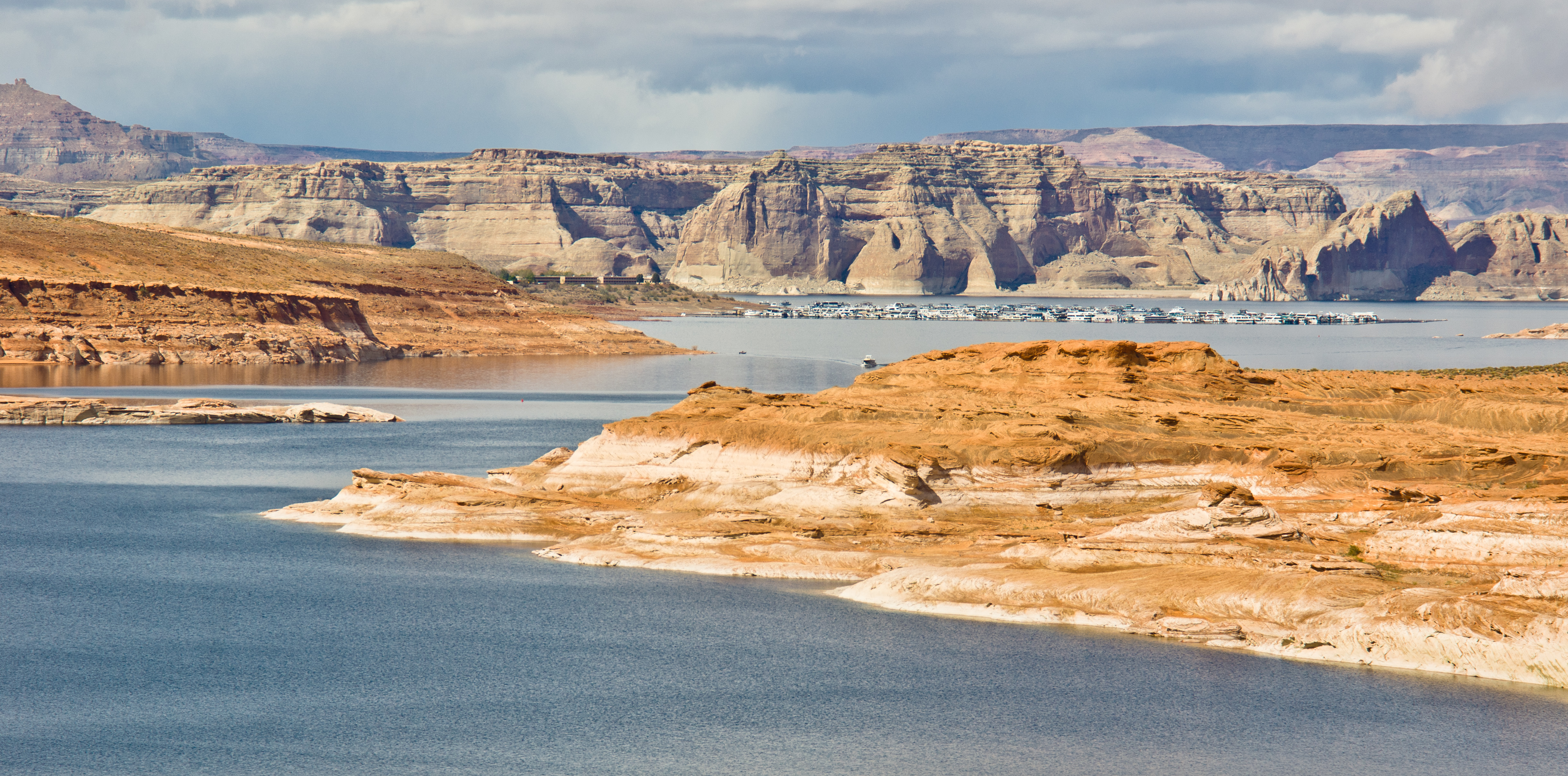 Lake Powell seen from Glen Canyon Dam.